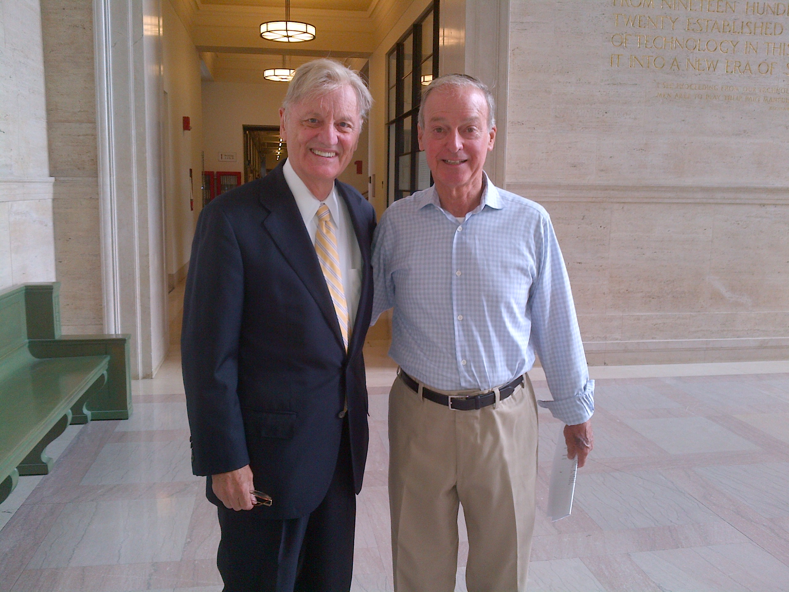 Professor Donovan with John Reed (Chairman of the MIT Corporation) in August 2015